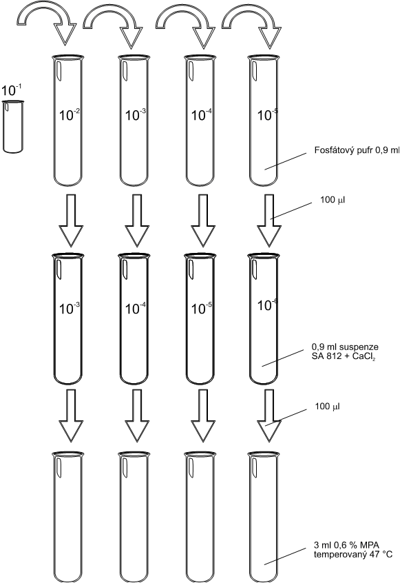 example of measurement of plaque forming unit.